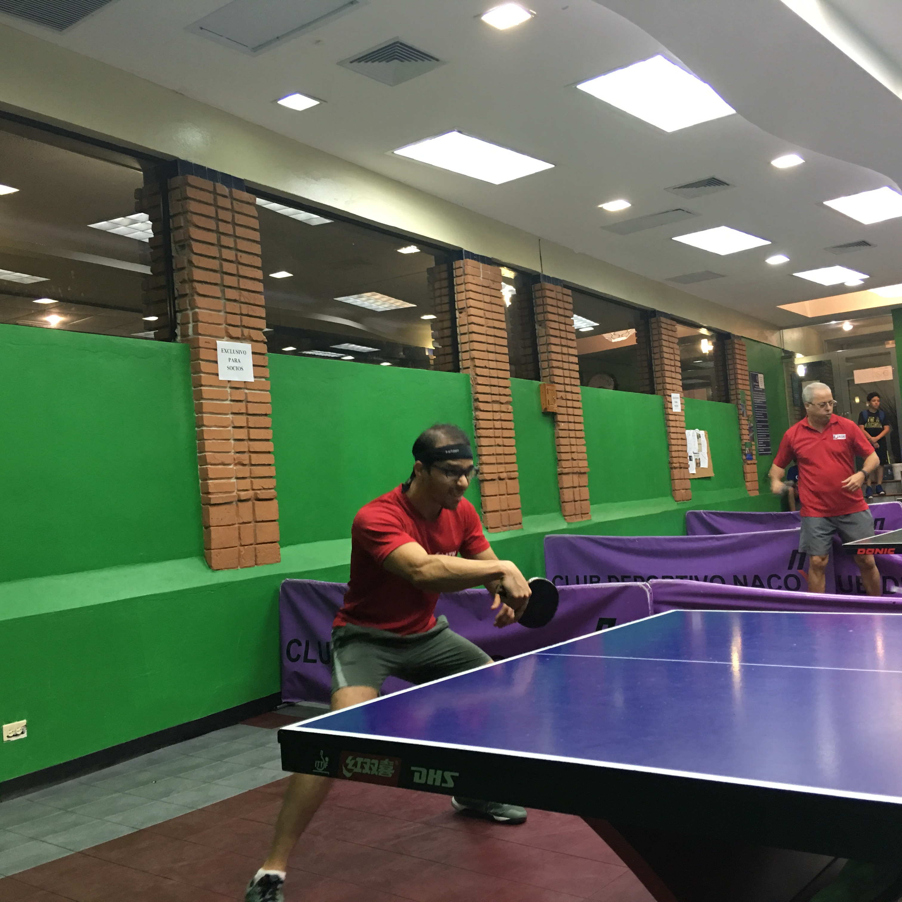 Ping Pong in Club Naco, Santo Domingo, Dominican Republic